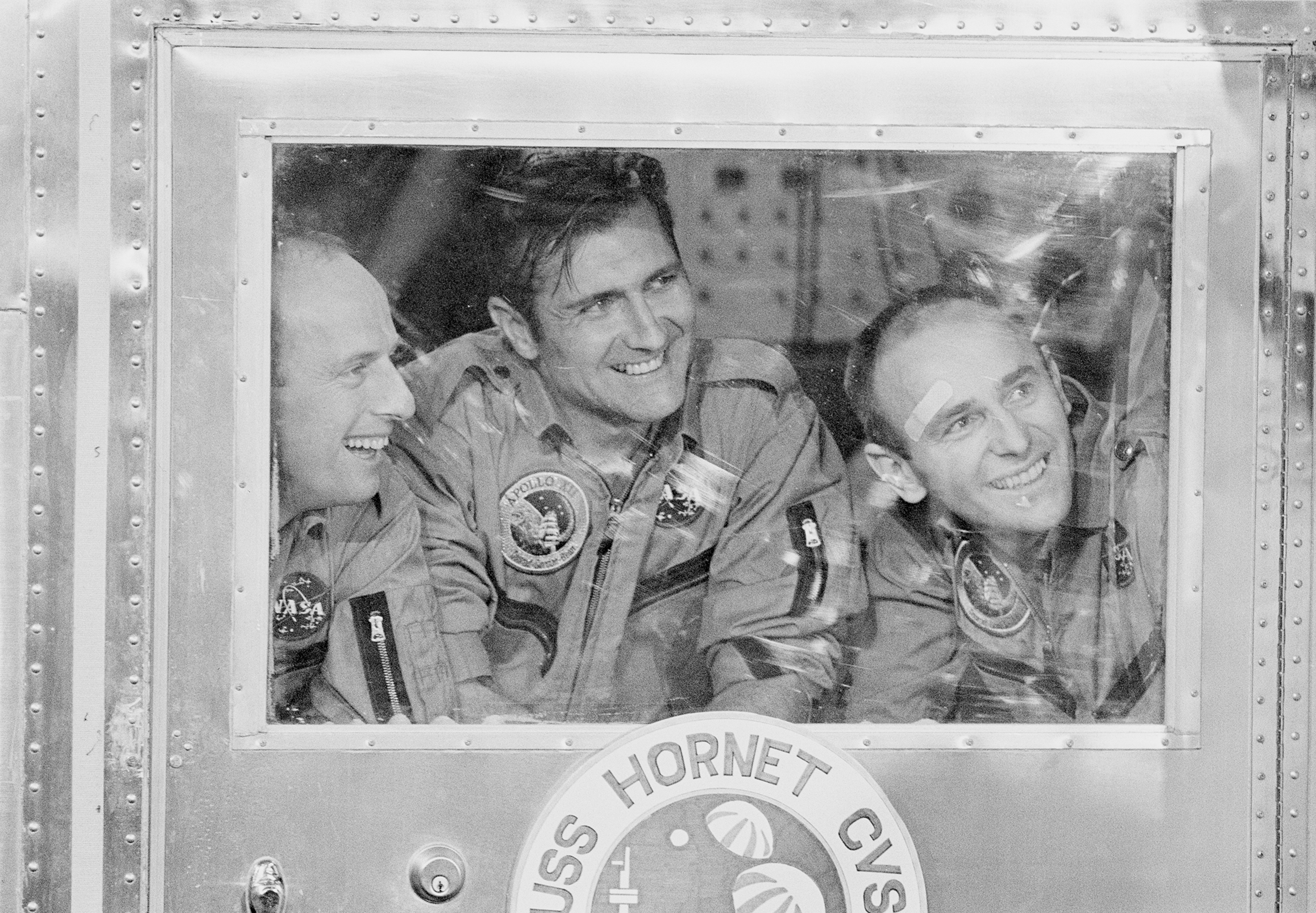 On November 24, 1969, the Apollo 12 command module splashed down in the Pacific Ocean. In this image, astronauts, from left, Charles Conrad, Richard Gordon, Alan Bean peer out of the window of the mobile quarantine facility aboard the recovery ship, USS Hornet.